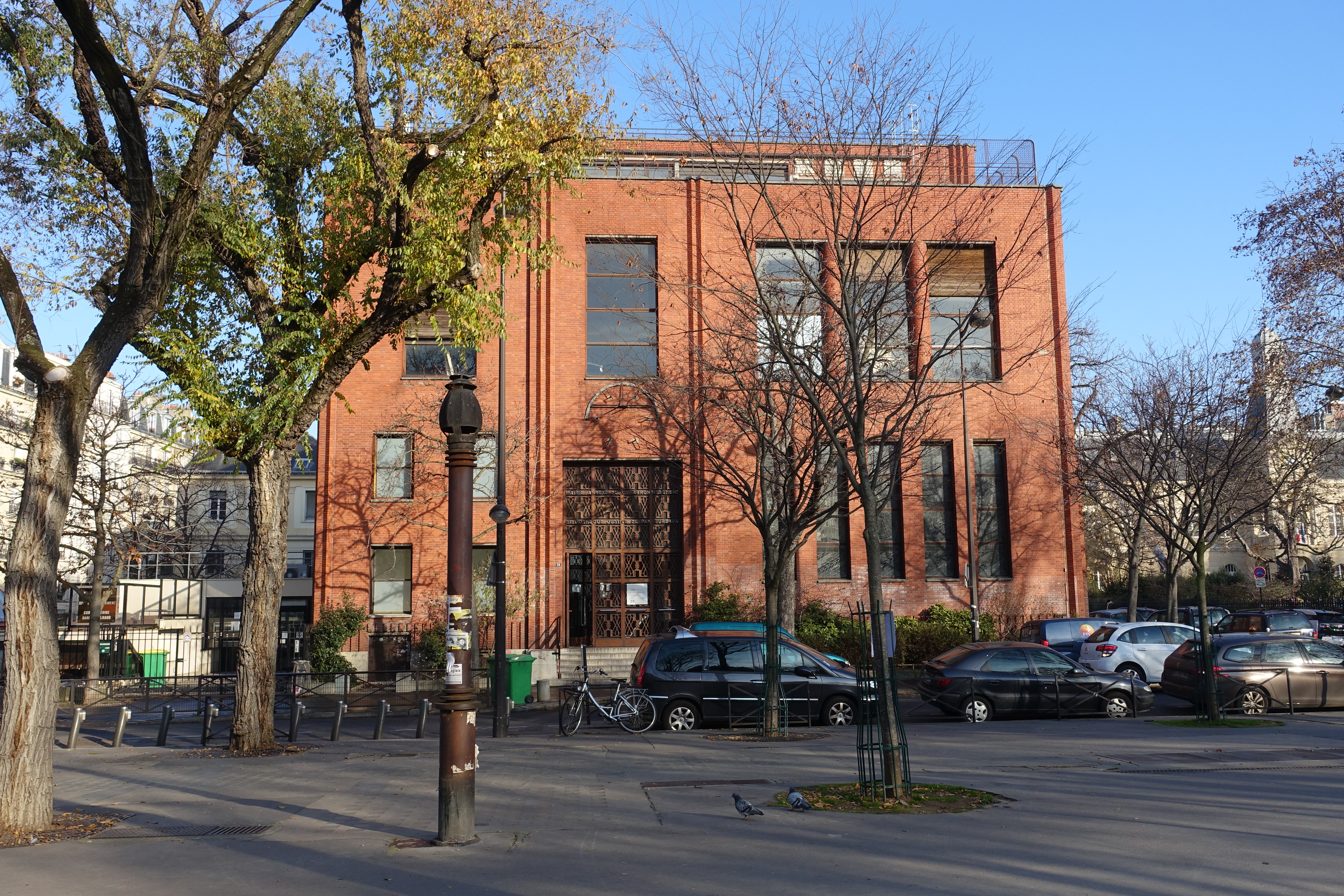 Conservatoire Darius Milhaud @ Place Gilbert Perroy @ Paris